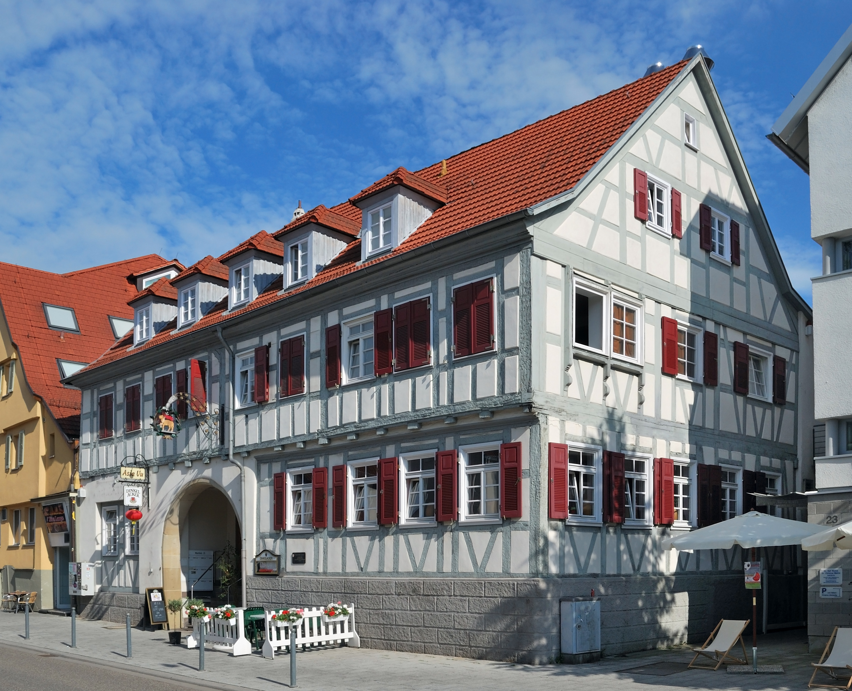 The restaurant Lamm (lamb) in Ditzingen, in the German Federal State Baden-Württemberg.